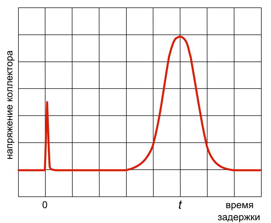 The Haynes-Shockley experiment, 1948